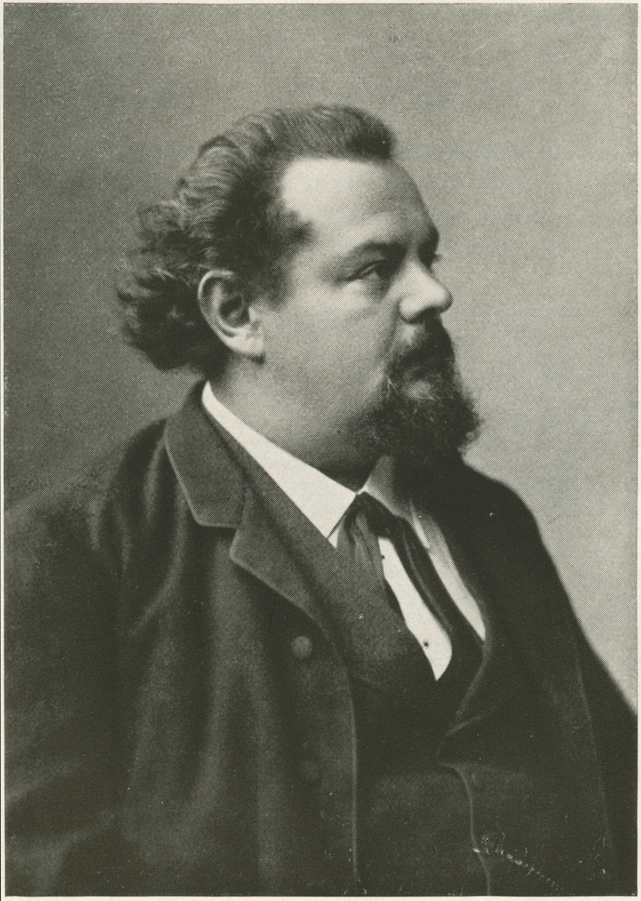 Portrait of Jakob Baechtold (1848–1897)